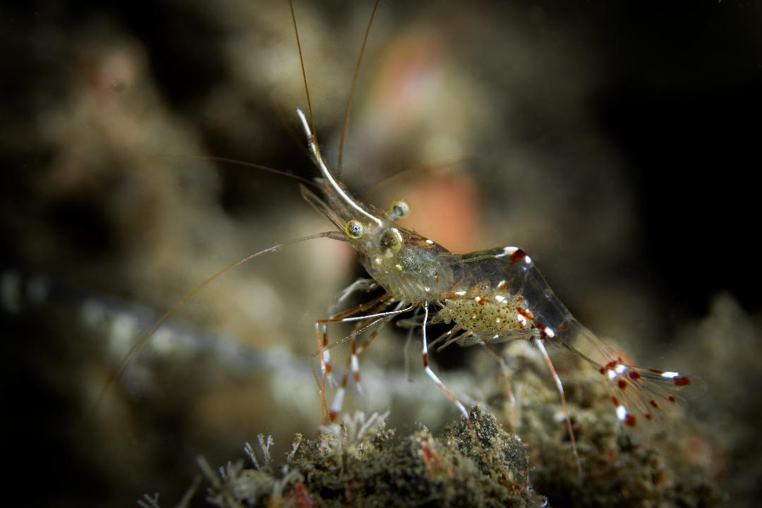 Renate Khalaf's Cleaner Shrimp (Urocaridella renatekhalafae Khalaf, 2018) from Khorfakkan Sea, East Coast of the United Arab Emirates, Gulf of Oman.